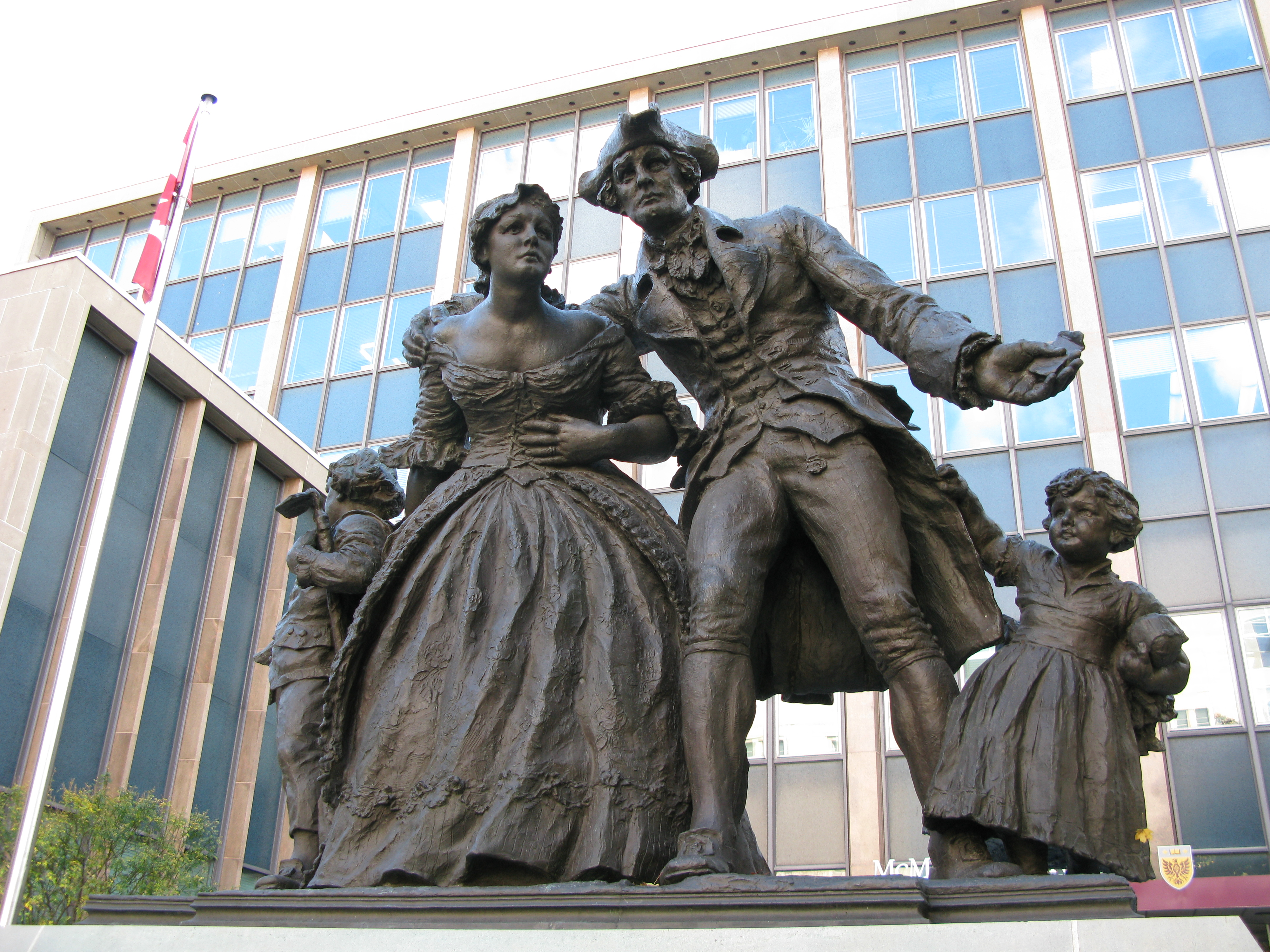 United Empire Loyalist statue in front of 50 Main Street East, Hamilton, Ontario